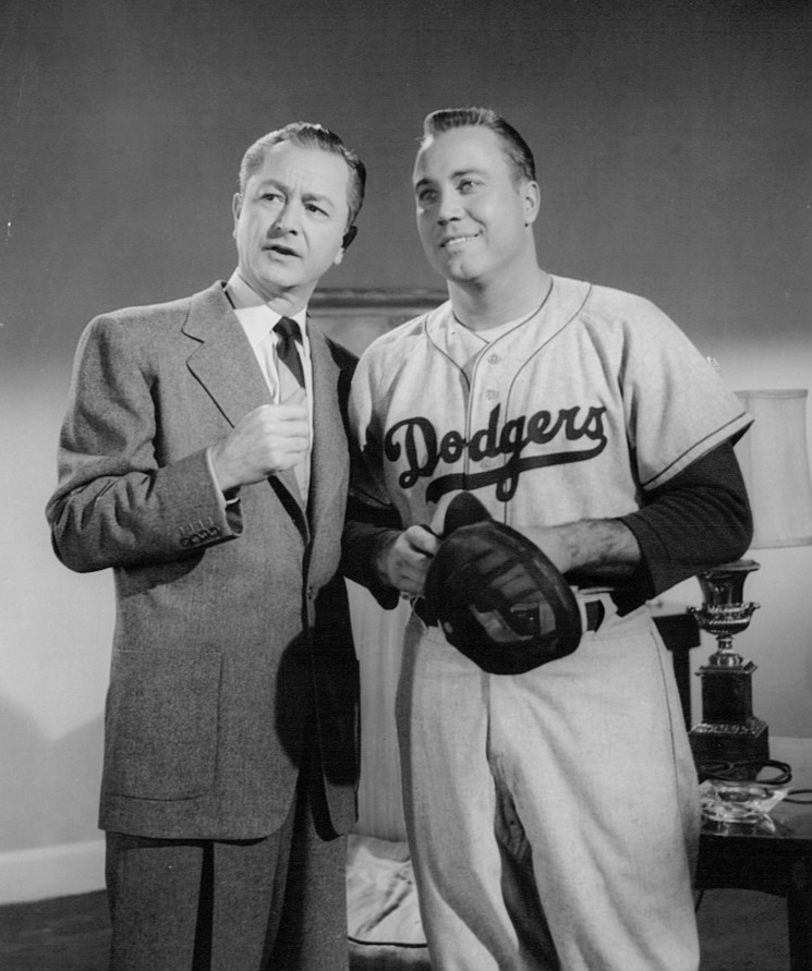 Photo of Robert Young as Jim Anderson and Dodgers player Duke Snider from the episode "Hero Father" of Father Knows Best. Snider was passing through town and Bud tells his friends that his father can get Snider to stop in for a visit with the boys.